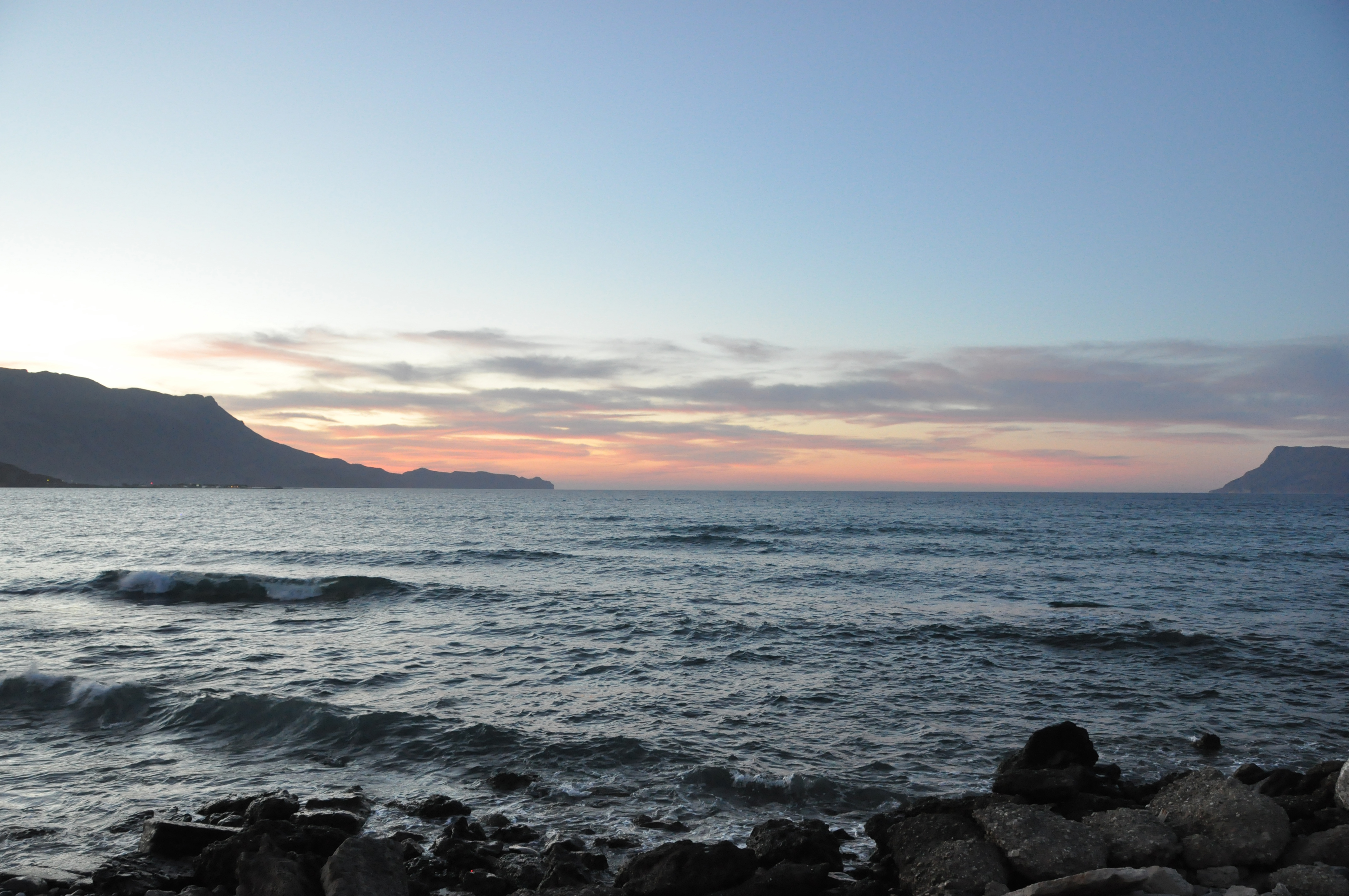 The Bay of Kissamos (Kolpos Kissamou), with the Gramvousa Peninsula at the left and the Rodopos Peninsula at the right (Crete, Greece)